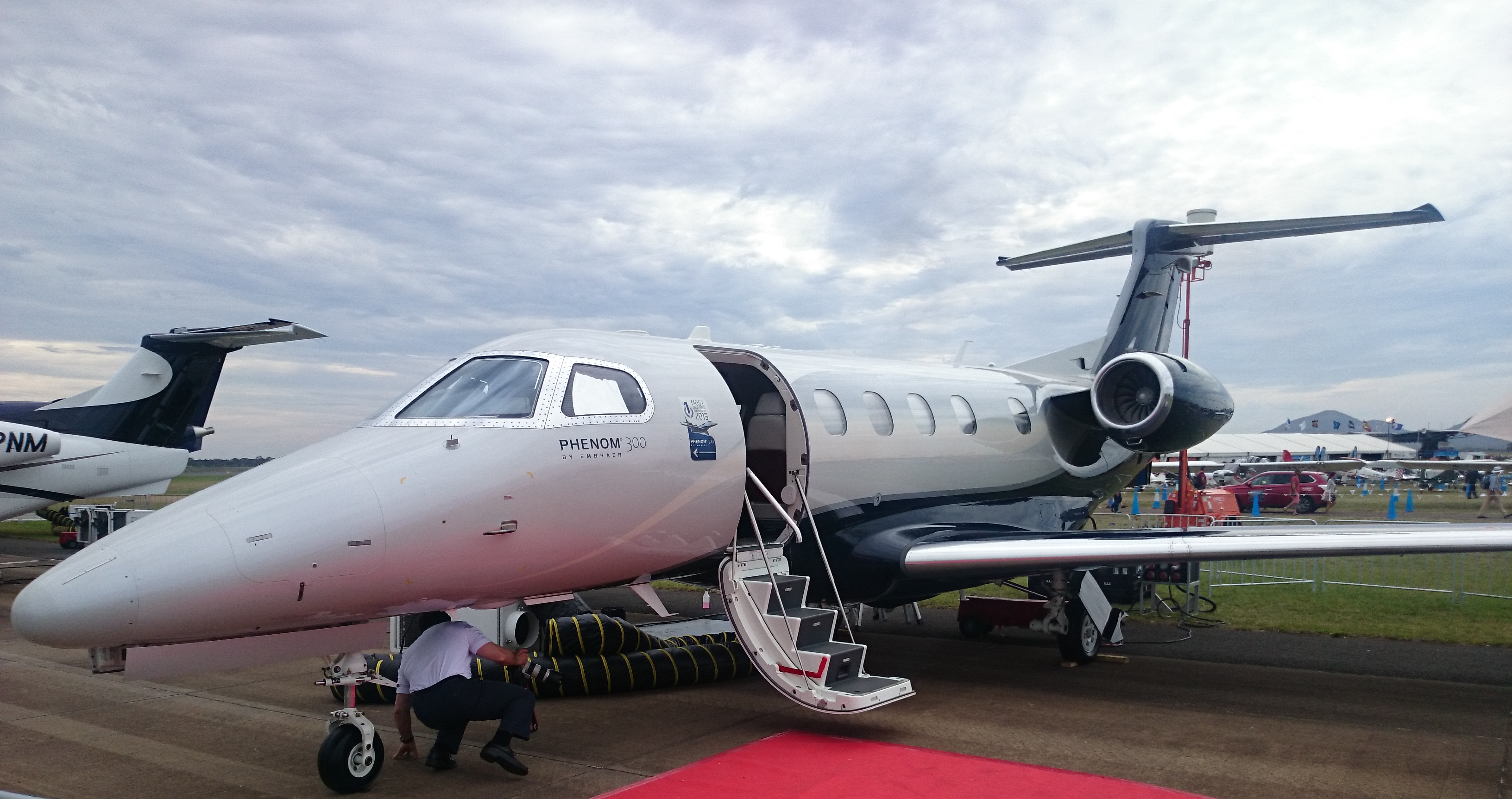 Embraer Phenom 300 (N585EE) on display at the 2015 Australian International Airshow